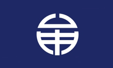 Flag of Mugi Tokushima